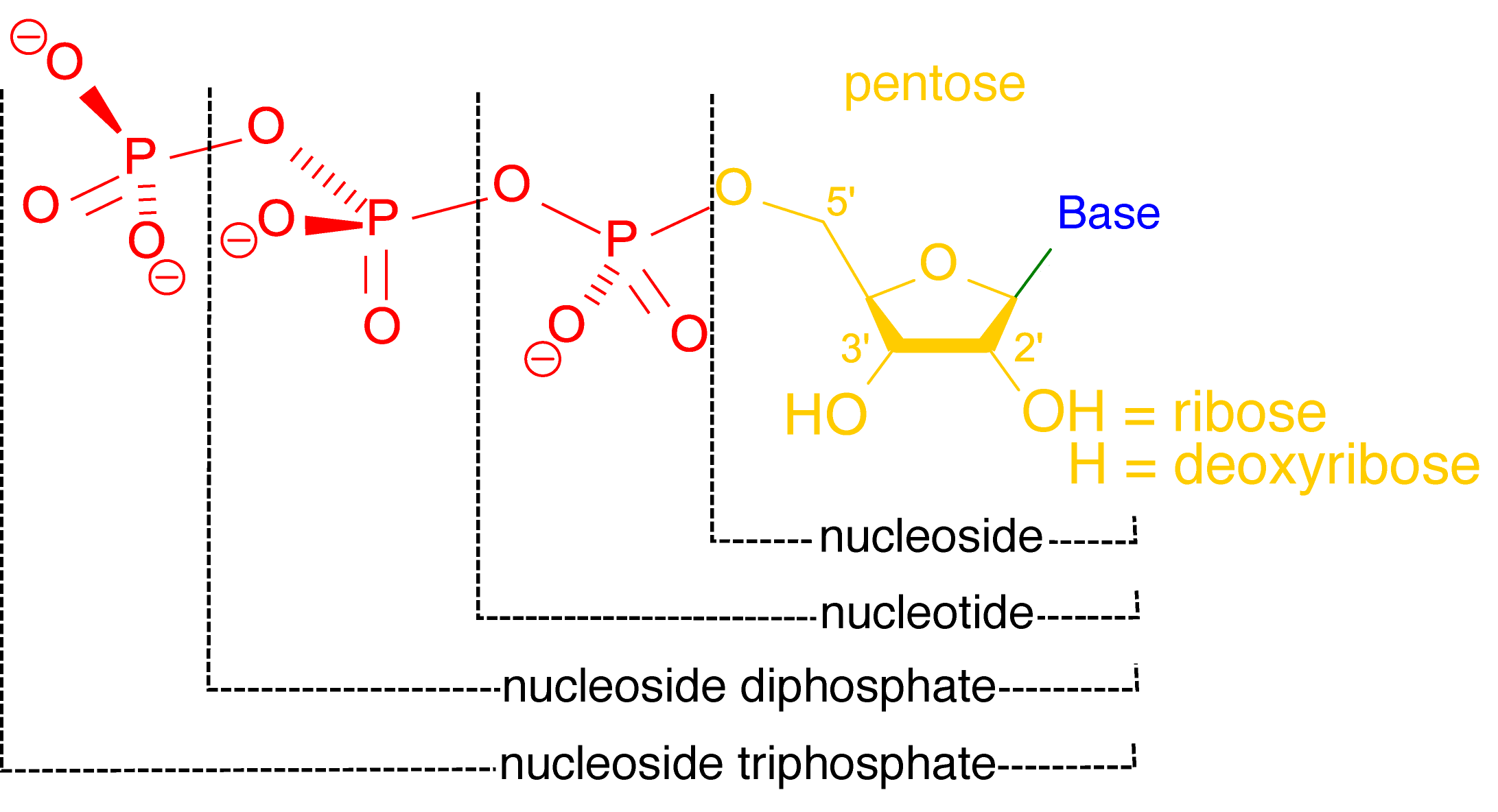 nested nucleoside, nucleotide, nucleoside diphosphate, nucleoside triphosphate. General depiction